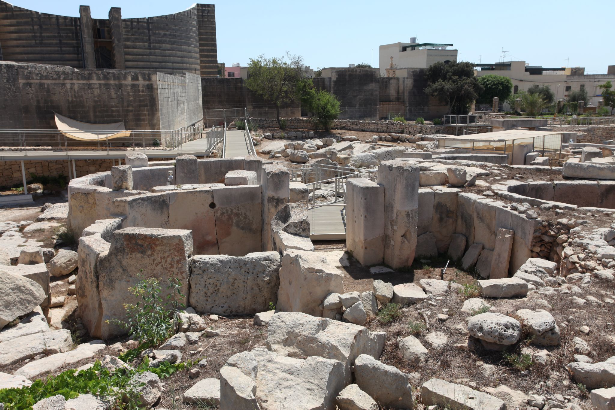 Tarxien temples: eastern temple